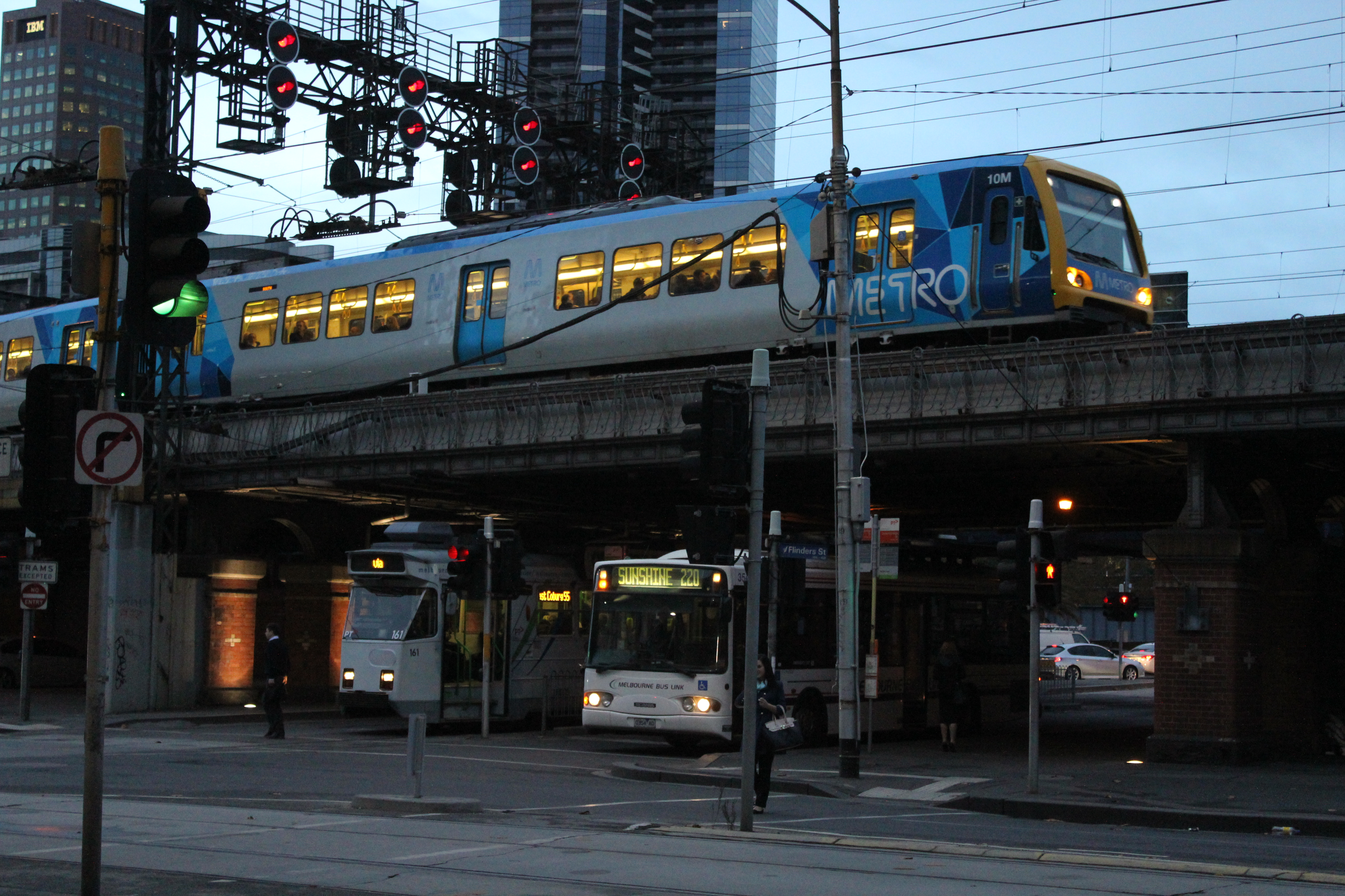 Z3 161 on route 55 next to Melbourne Bus Link number 354 (0354AO) Scania on route 220, with Metro Alstom X'trapolis 10M, 2013